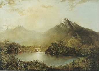 Tropical Sunrise